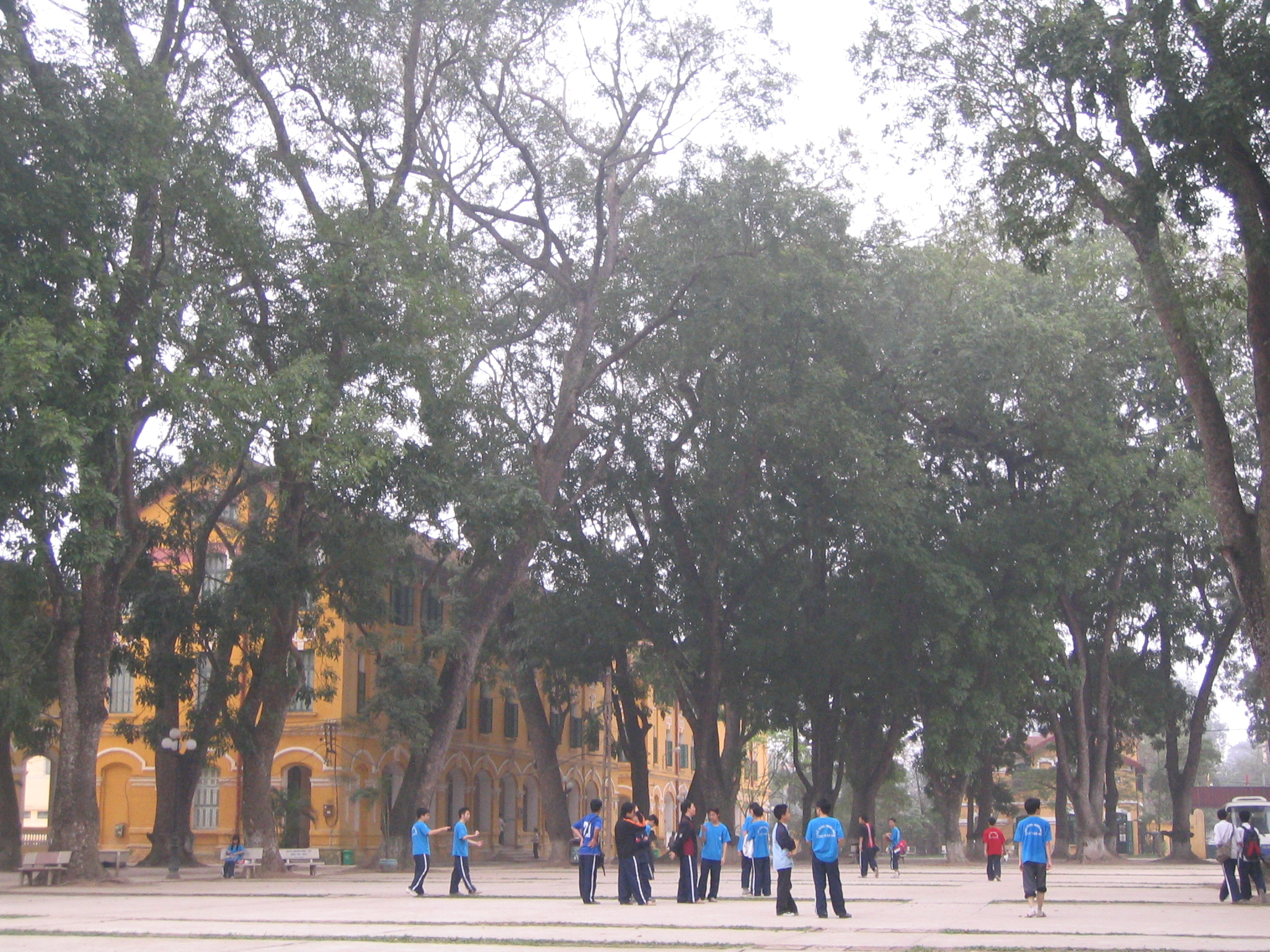 Chu Văn An High School Front Yard, 2006